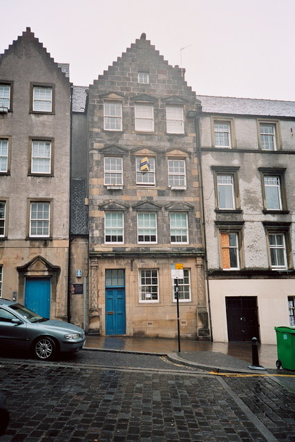 Norie's House, Broad Street, Stirling James Norie was a lawyer and town clerk in Stirling and built his fashionable new house in 1671. It even had its own well! The site belonged to his wife's parents an the family initials can be seen over the window, along with the Latin mottoes such as "Wisdom is the tree of life". At the top of the roof you can see Norie's wigged head looking down on you.